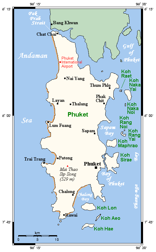 Map of Phuket in Thailand.